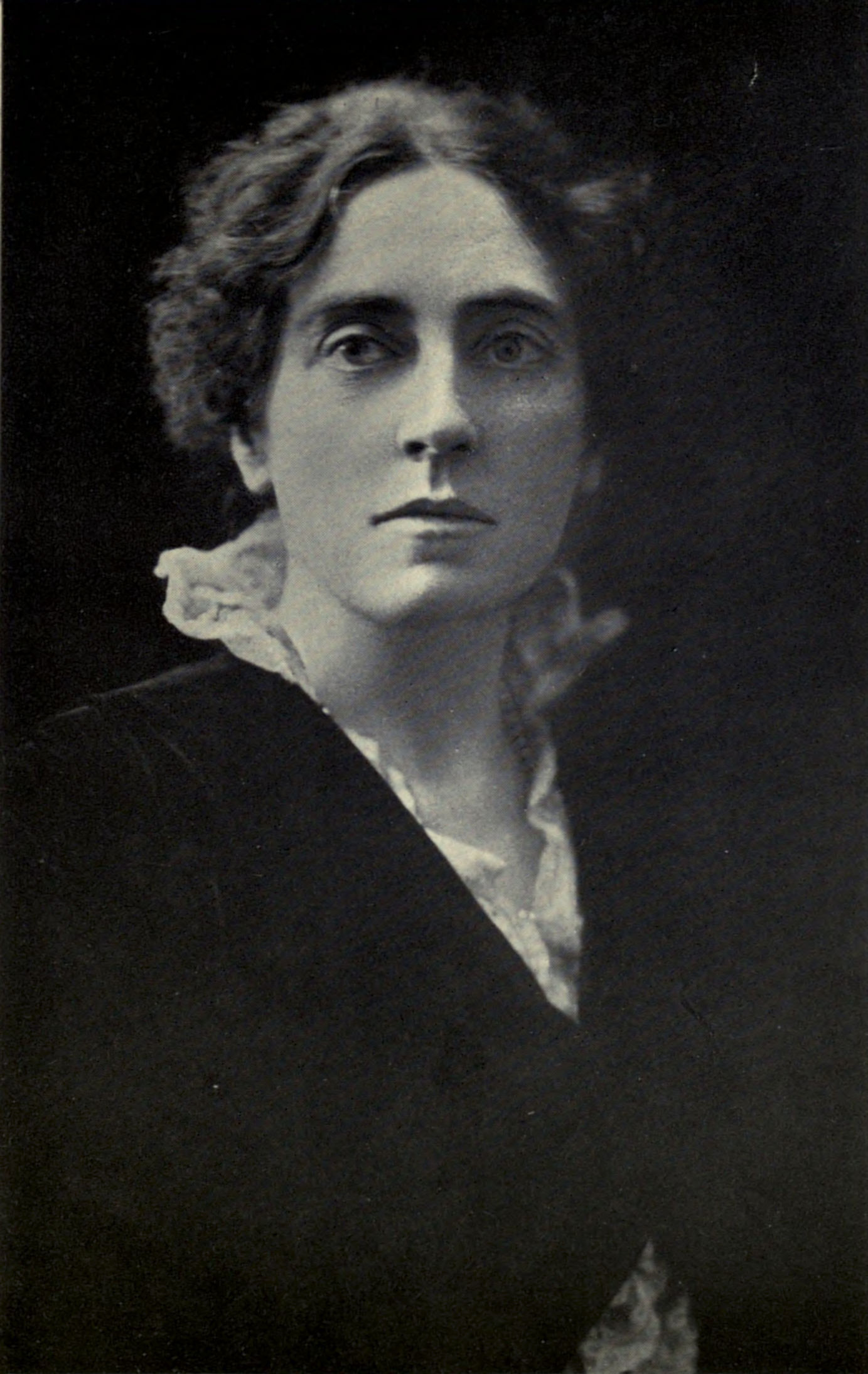 MRS. H. J. TENNANT, Director of the Woman's Department of National Service in England (Margery Mary "May" Tennant).